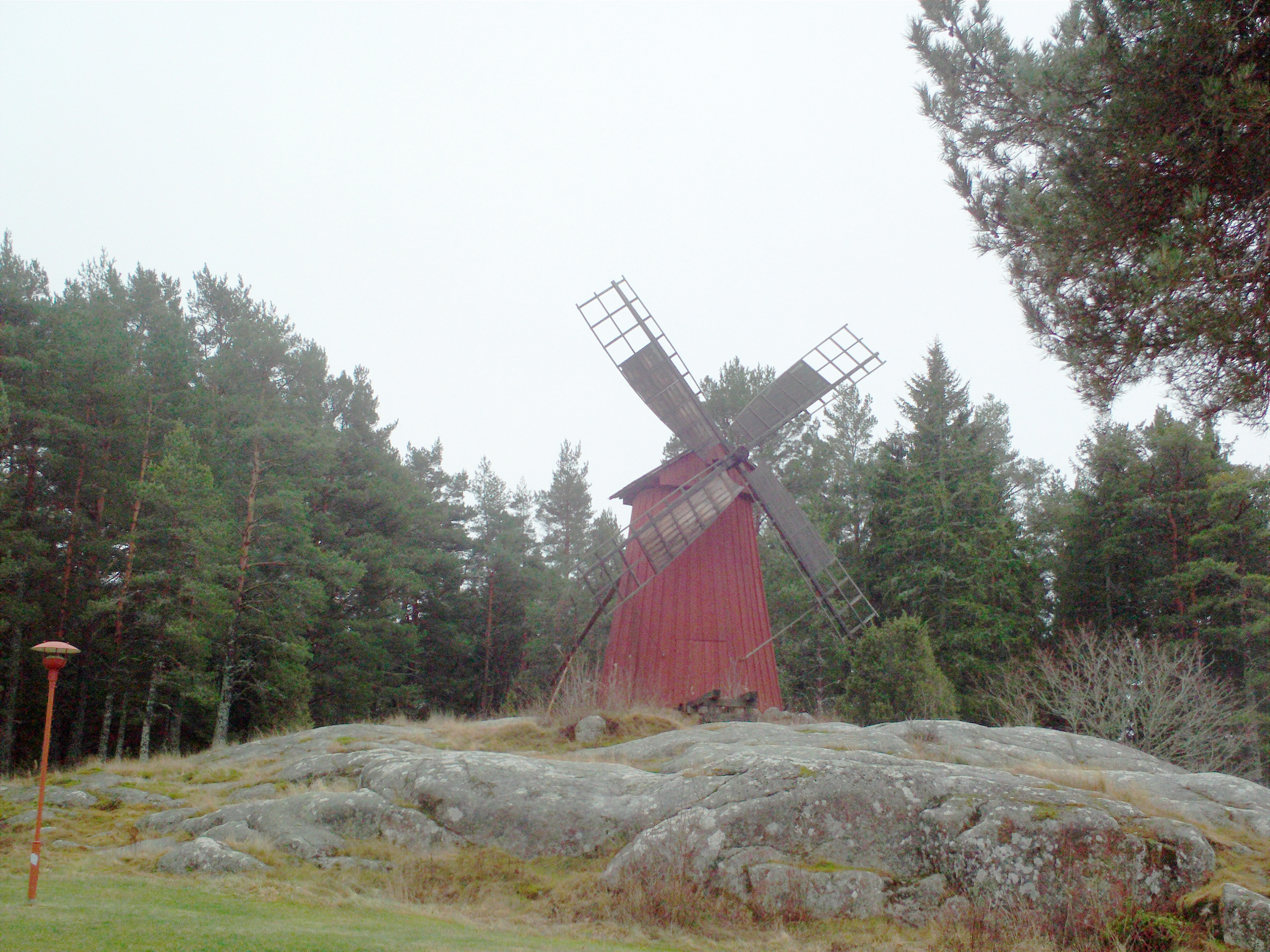 Jan Karlsgården open air museum in Sund.